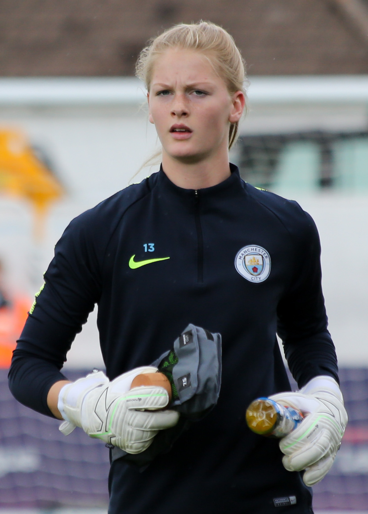 2018–19 FA WSL: Arsenal WFC v Manchester City WFC, 11 May 2019 – Fran Stenson of Manchester City before the start of the match